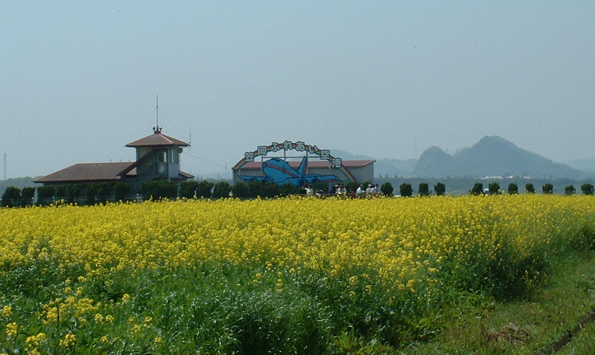 Kasaoka Airstation(Kasaoka Okayama). Photographed by Carpkazu in May 2006 and released to the public domain.